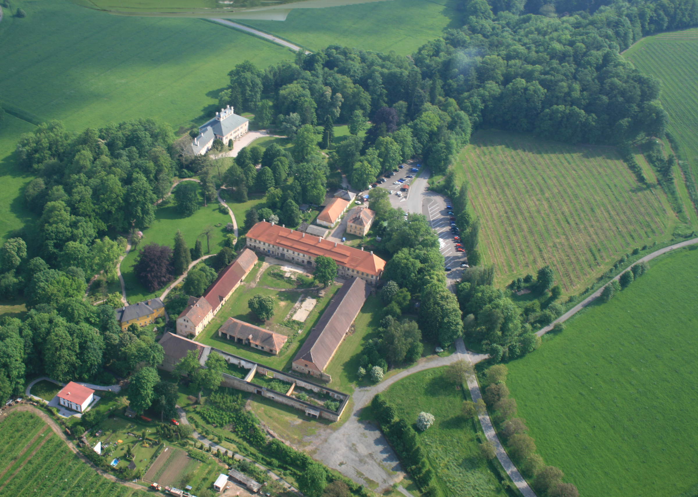 Castle Ratibořice near of Česká Skalice from air, eastern Bohemia, Czech Republic